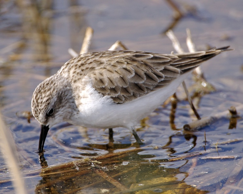 Little Stint (Calidris minuta), adult, winter El Fayoum, Egypt 5th. January 2008